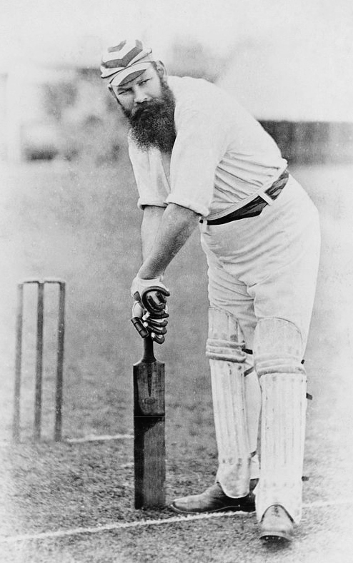 William Gilbert "W. G." Grace (1848–1915), English cricketer, taking guard. Signed in ink in the lower white border.